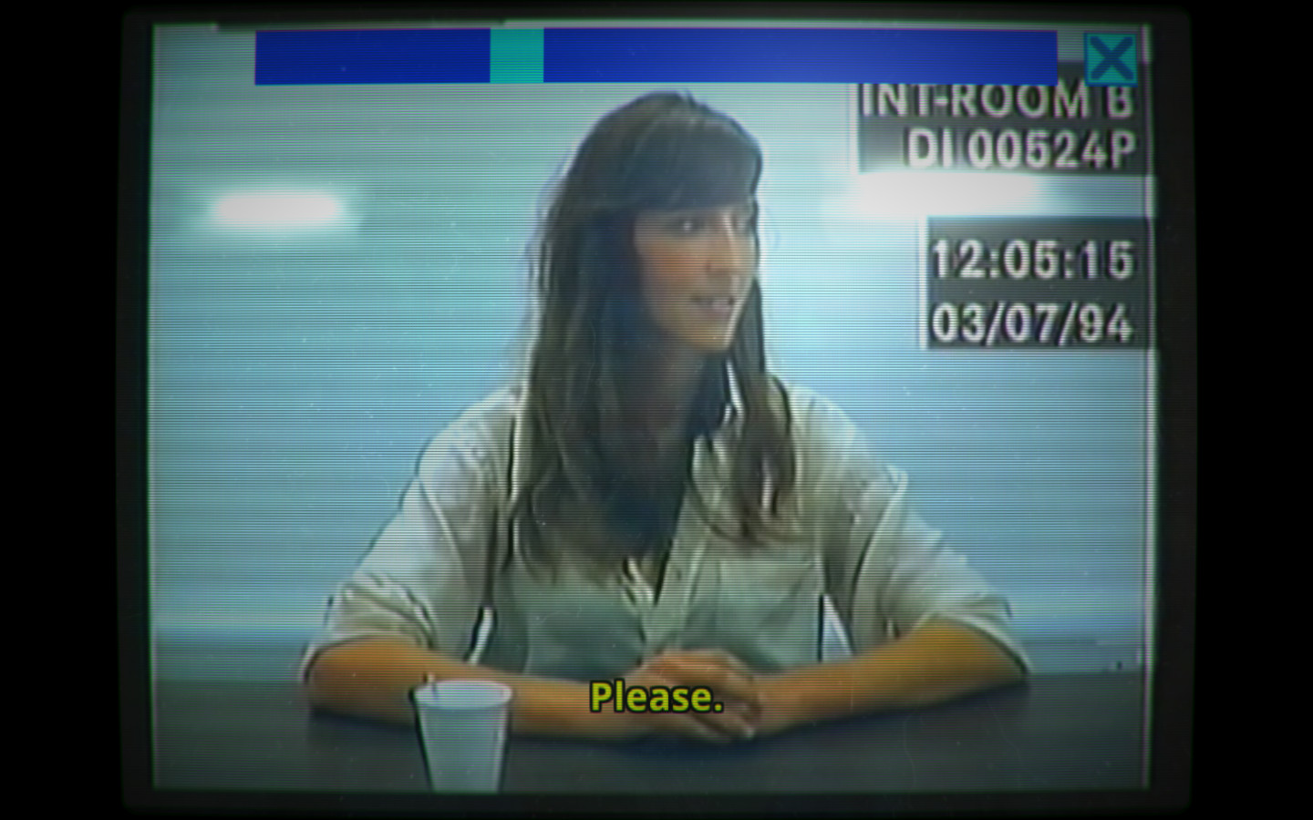 Screenshot from Her Story press kit